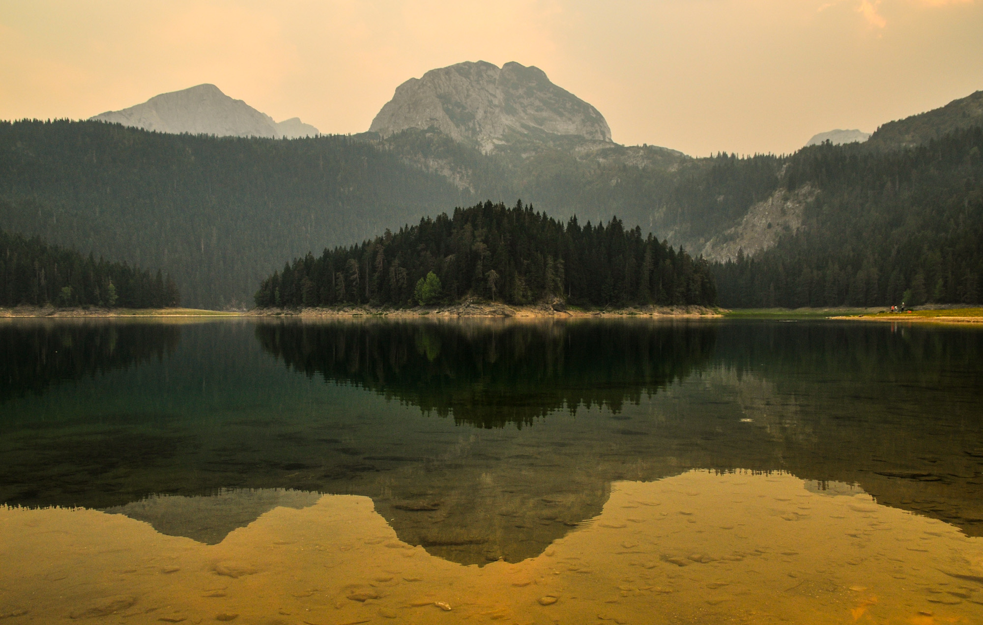 Black Lake at sunset